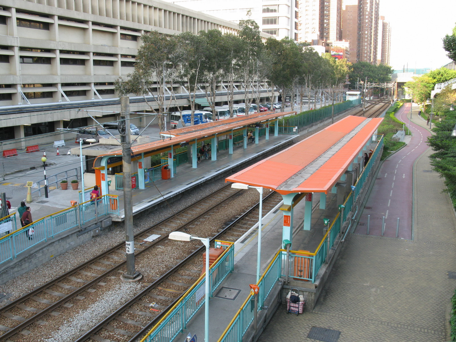 輕鐵 屯門醫院站 Tuen Mun Hospital Stop, Light Rail